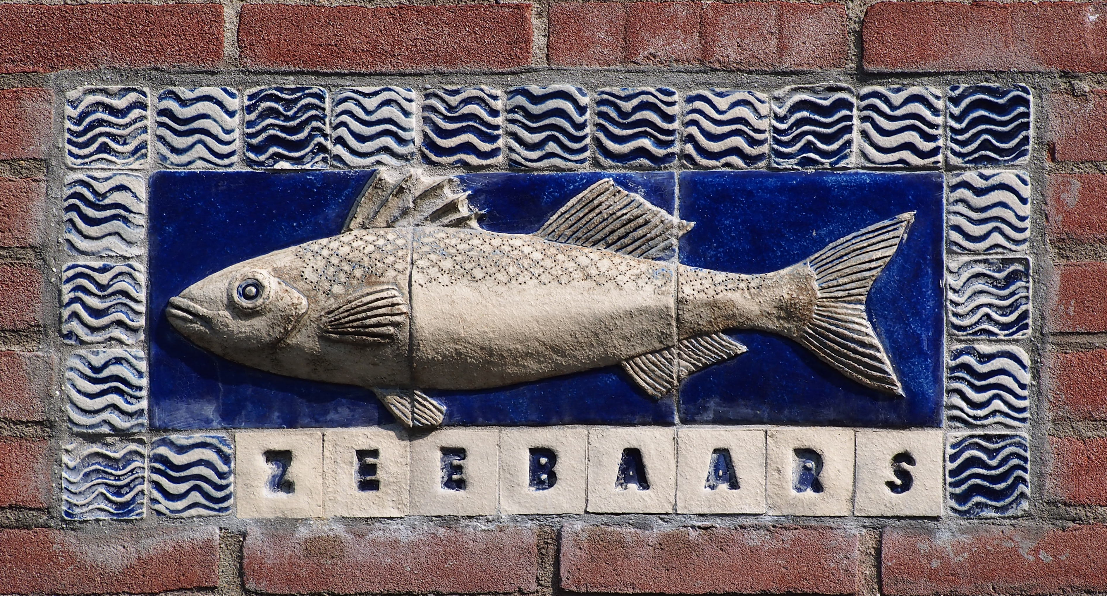 Photographed in Amsterdam.